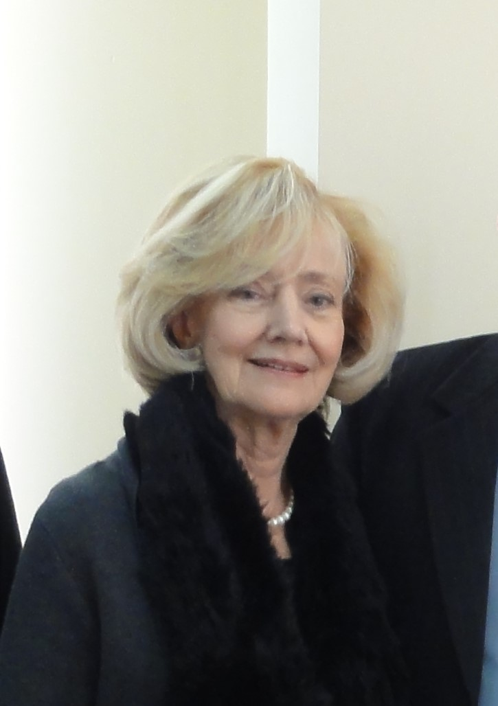 Senator Raynell Andreychuk, Odesa, NATO-Ukraine Inter-Parliamentary Council, March 6, 2018